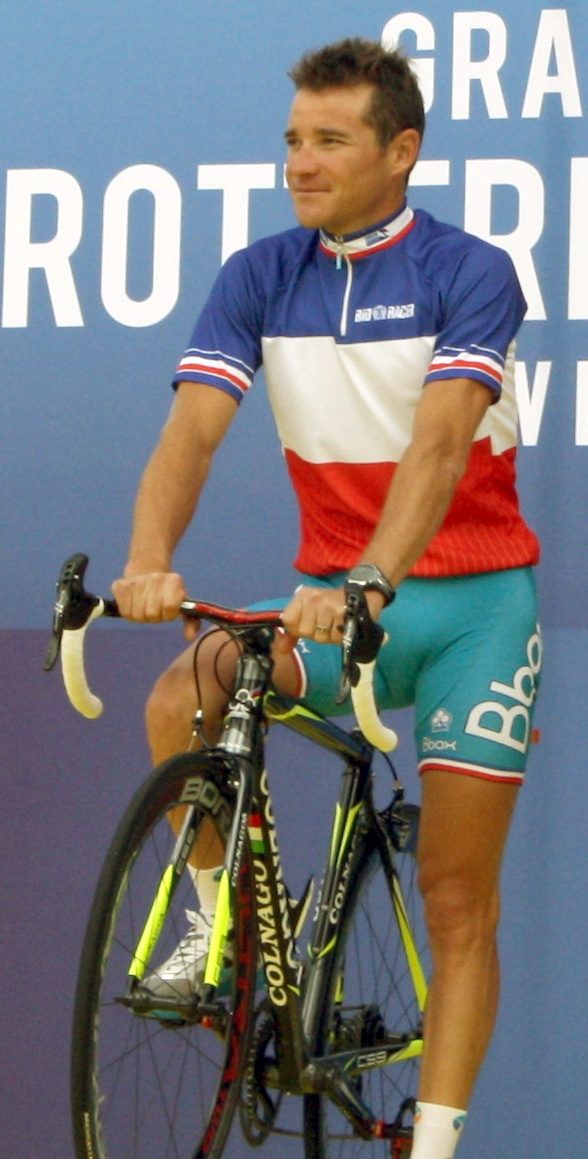 Thomas Voeckler at the team presentation of the 2010 Tour de France in Rotterdam